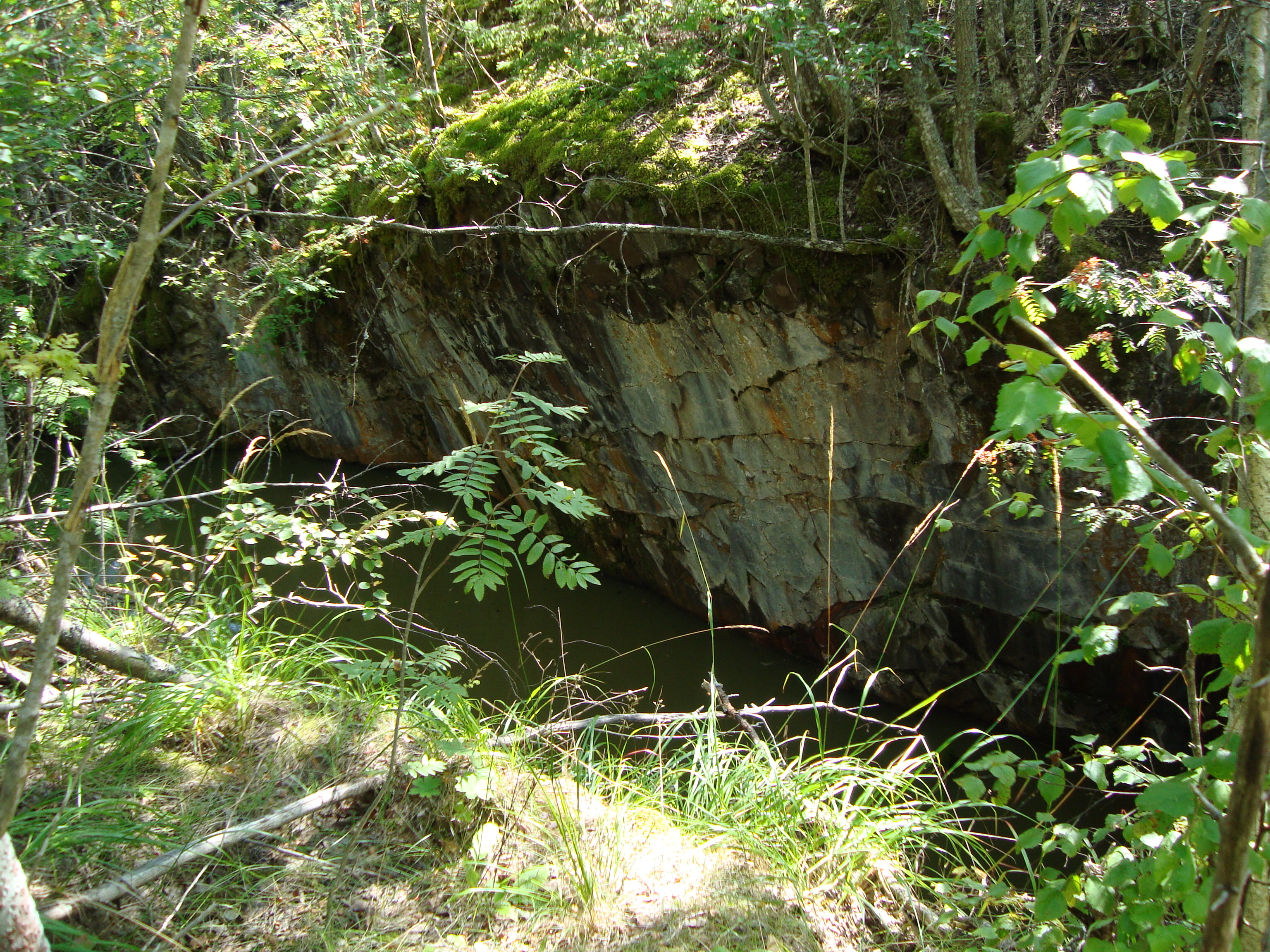 Old mines of Långvik, Garpenberg, Hedemora Municipality, Sweden.